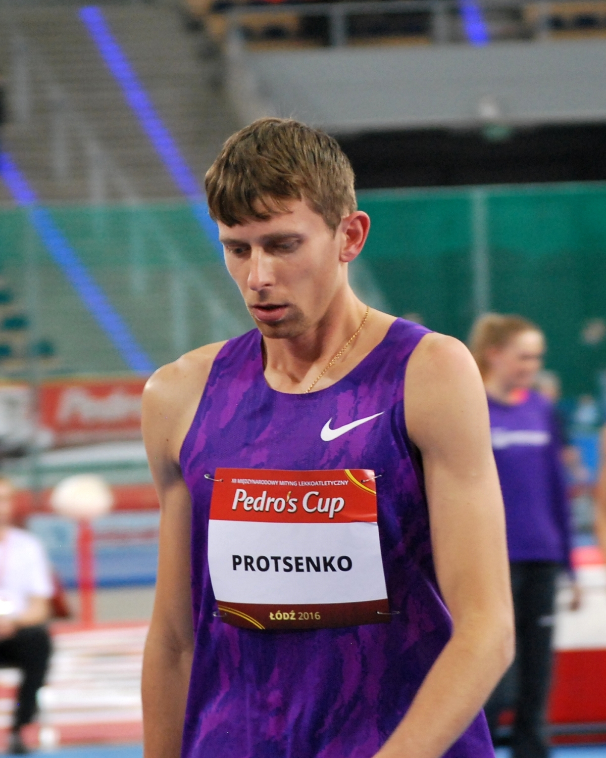 Andrij Protsenko, high jumper from Ukraine, Pedro's Cup Łódź 2016